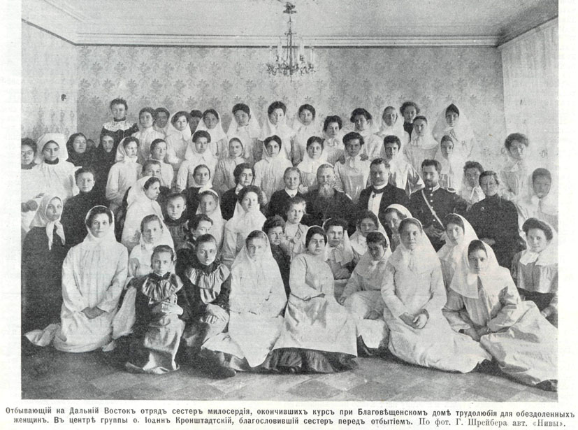 Nurses from Blagoveshchensk with Saint John of Kronstadt